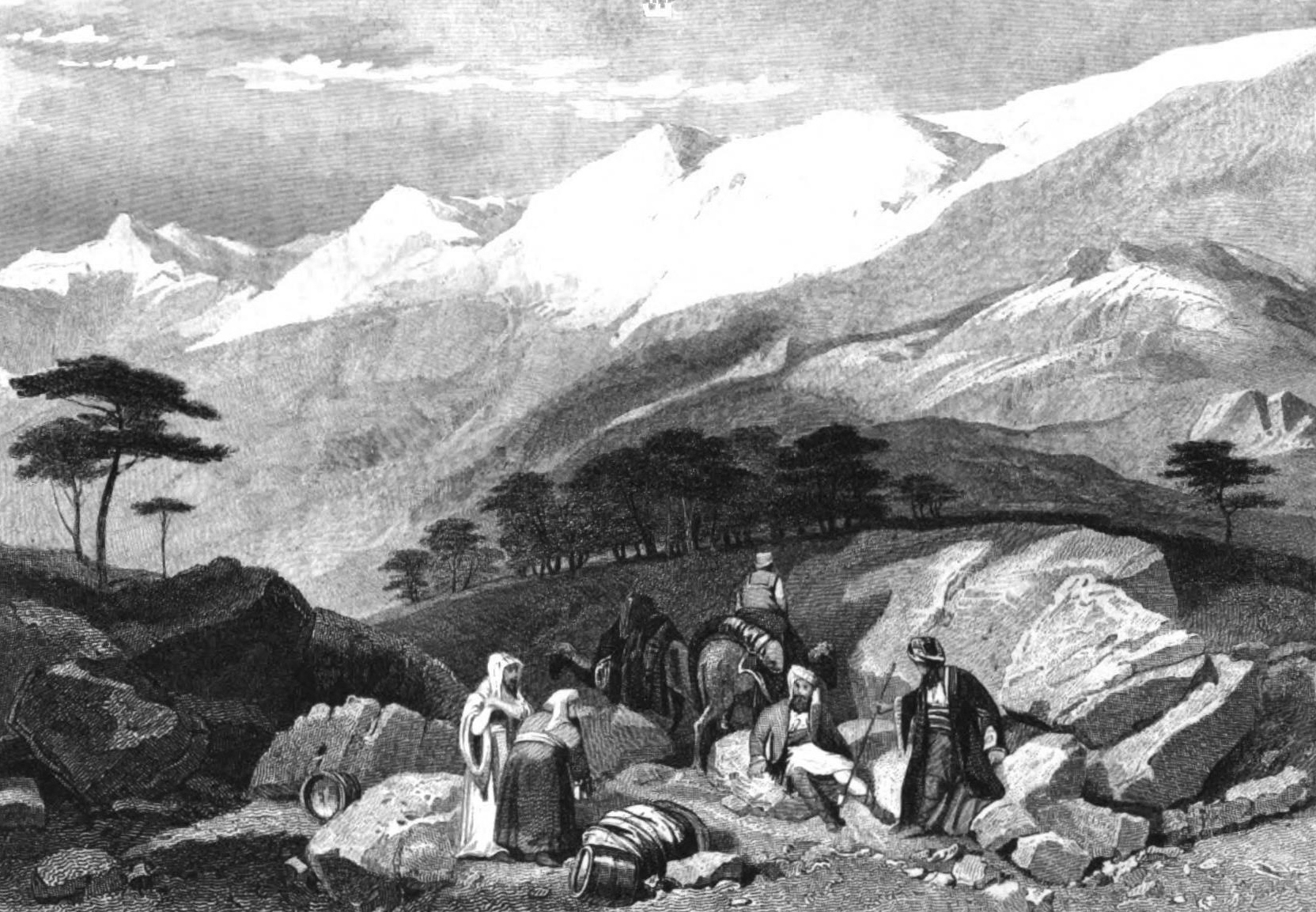 The Mount Lebanon Range — northern Lebanon.